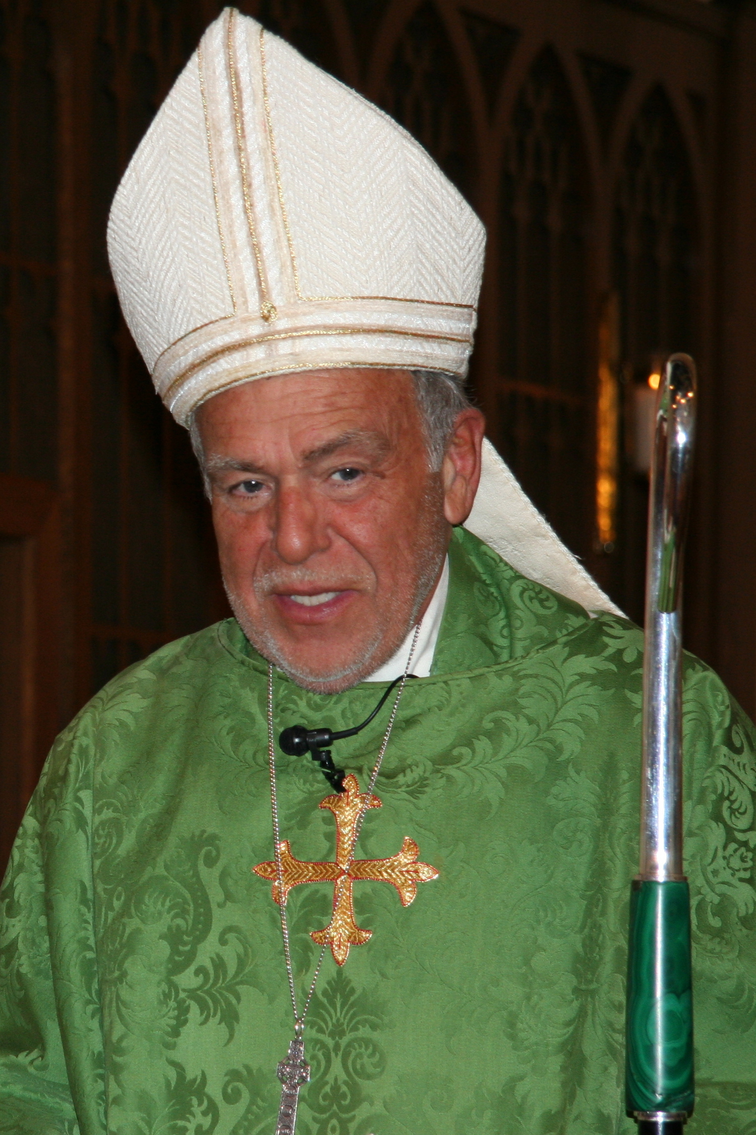 The Right Reverend James L. Jelinek, Eighth Bishop of the Diocese of Minnesota in the Episcopal Church in the United States of America, wearing vestments and a mitre and holding a crozier at just after leading a worship service at Calvary Episcopal Church in Rochester, Minnesota.